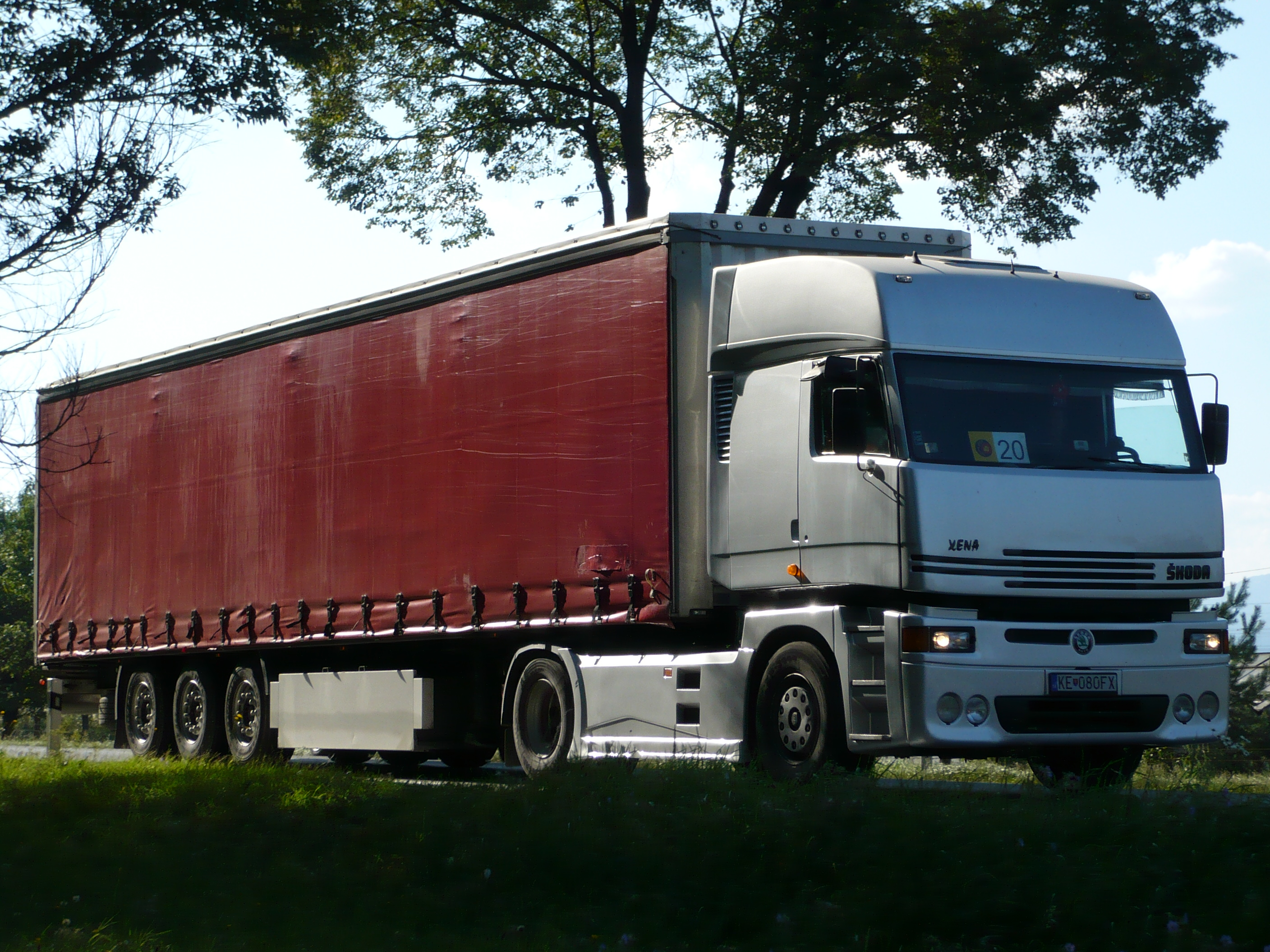 Truck Škoda Xena 18.470